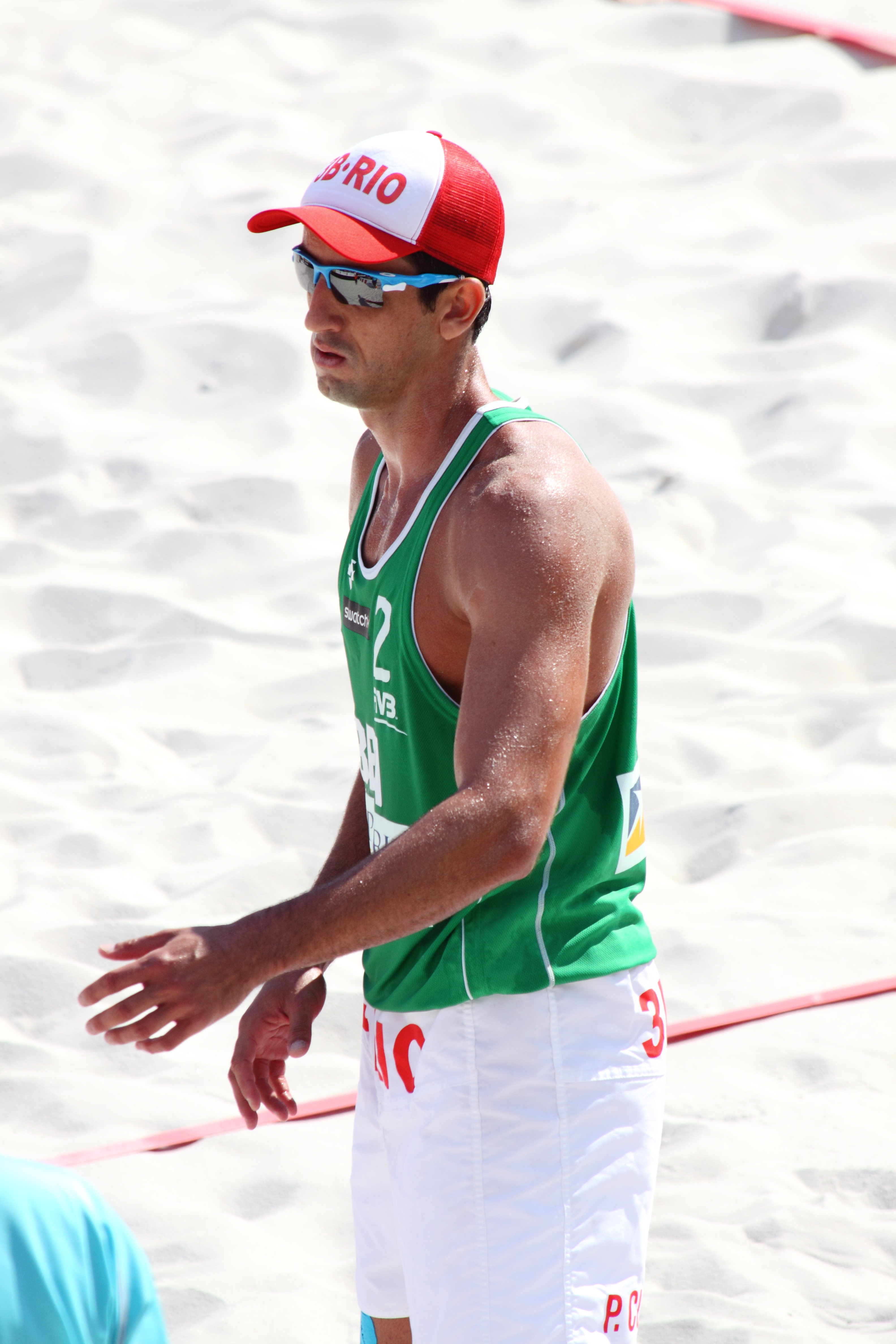 Pedro Cunha during the Patria Direct Open 2012 final match